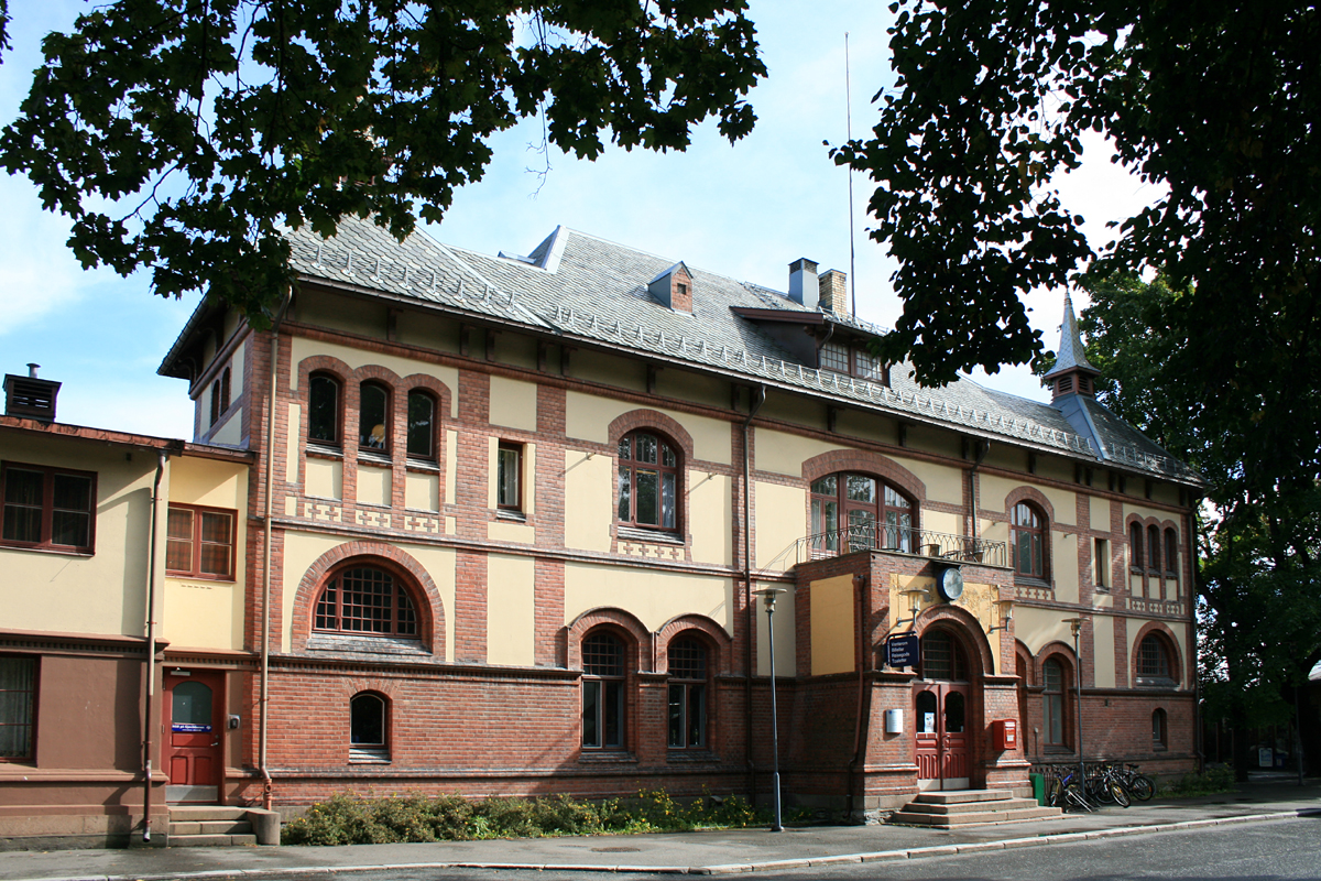 Gjøvik railway station, Gjøvik, Norway. Built 1902. Architect: Paul Armin Due.